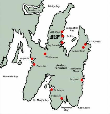 based on GFDL map by Jcmurphy (Image:Avalon fullmap.gif)